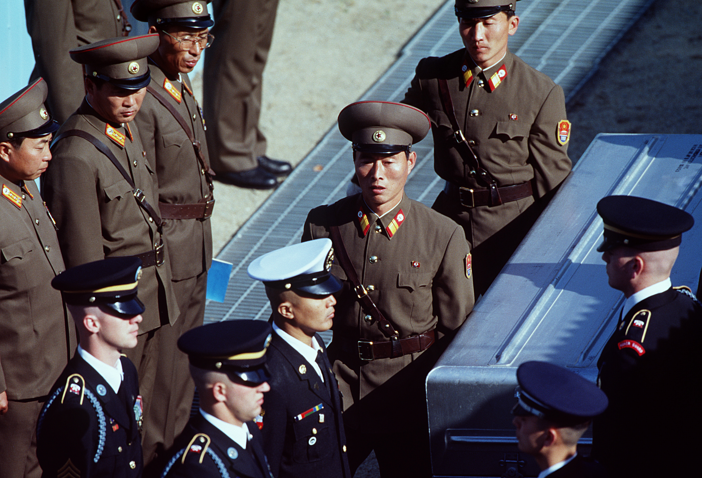 United Nations Command (UNC) honor guard members receive remains from Korean People's Army soldiers during a repatriation ceremony at the Panmunjom Joint Security Area, Republic of Korea (ROK) on Nov. 6, 1998. Repatriation of Korean War remains are a result of a joint U.S./Democratic Peoples Republic of Korea joint recovery operation within North Korea to locate and return the U.S. service members to their homeland through Panmunjom. Twenty-nine service members have been returned since the joint recovery operation began in 1996. (U.S. Air Force photo by TSgt James Mossman) (Released)